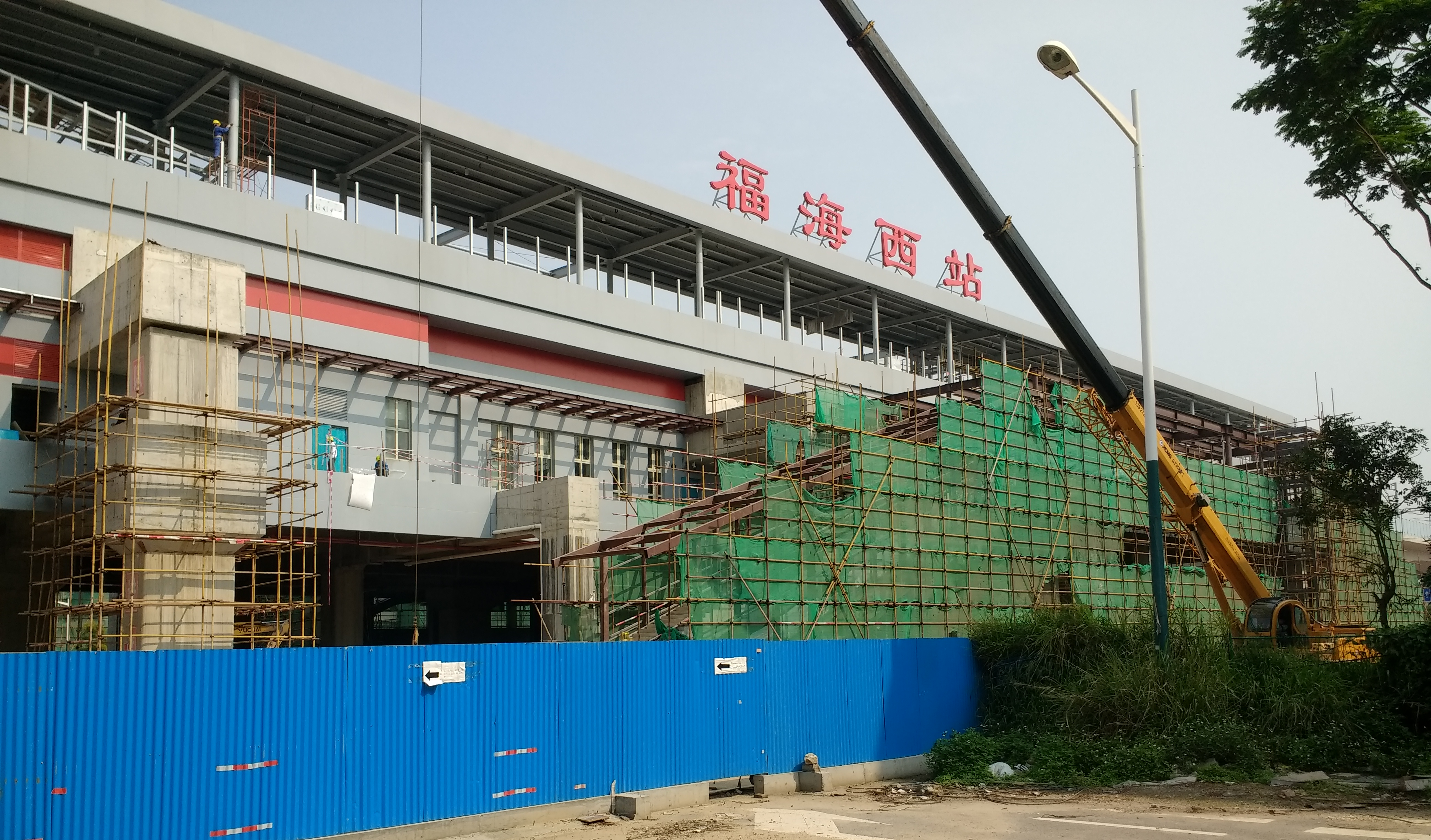 Fuhai West station (福海西站) under construction in Shenzhen in March 2019.